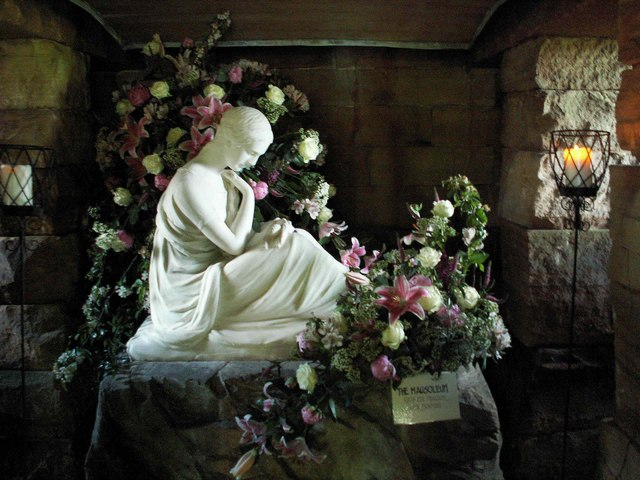 Marble statue of Katherine Losh (died 1835) in her mausoleum in St Mary's parish churchyard, Wreay, Cumbria. David Dunbar the Younger sculpted the statue in 1850, based on a sketch drawn by Losh's sister Sarah Losh in 1817. The mausoleum had been decorated as part of a flower festival at the church.